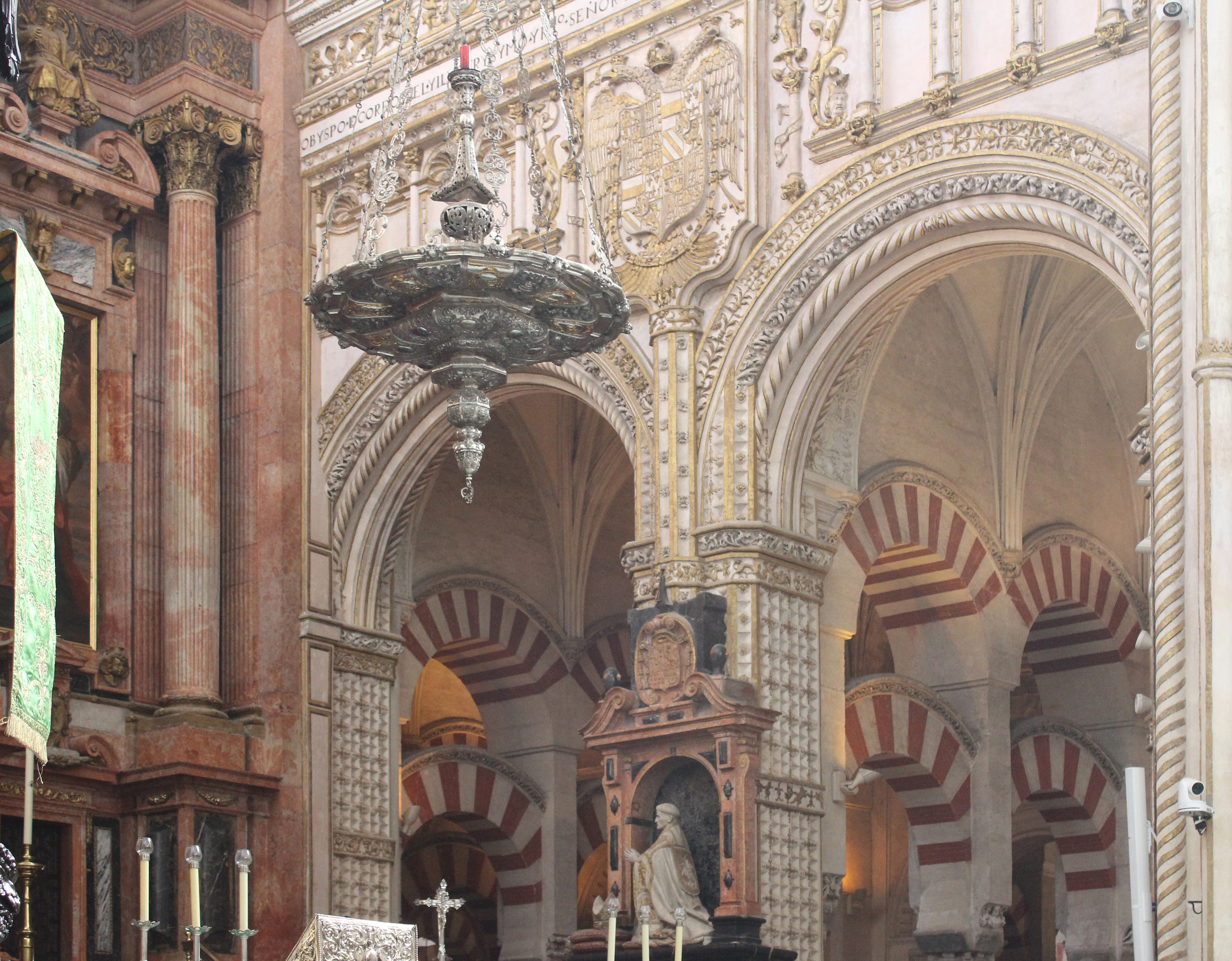 Blending of the Moorish architecture and Christian (Renaissance) architecture in the vicinity of the sanctuary of the Mezquita-Catedral de Córdoba. Originally the Mezquita (mosque) had 1293 pillars but after Cordoba was captured by Christian forces in 1236, 437 pillars were removed to make way for the building of the a cathedral. This place is a UNESCO World Heritage Site, listed as Historic Centre of Cordoba.